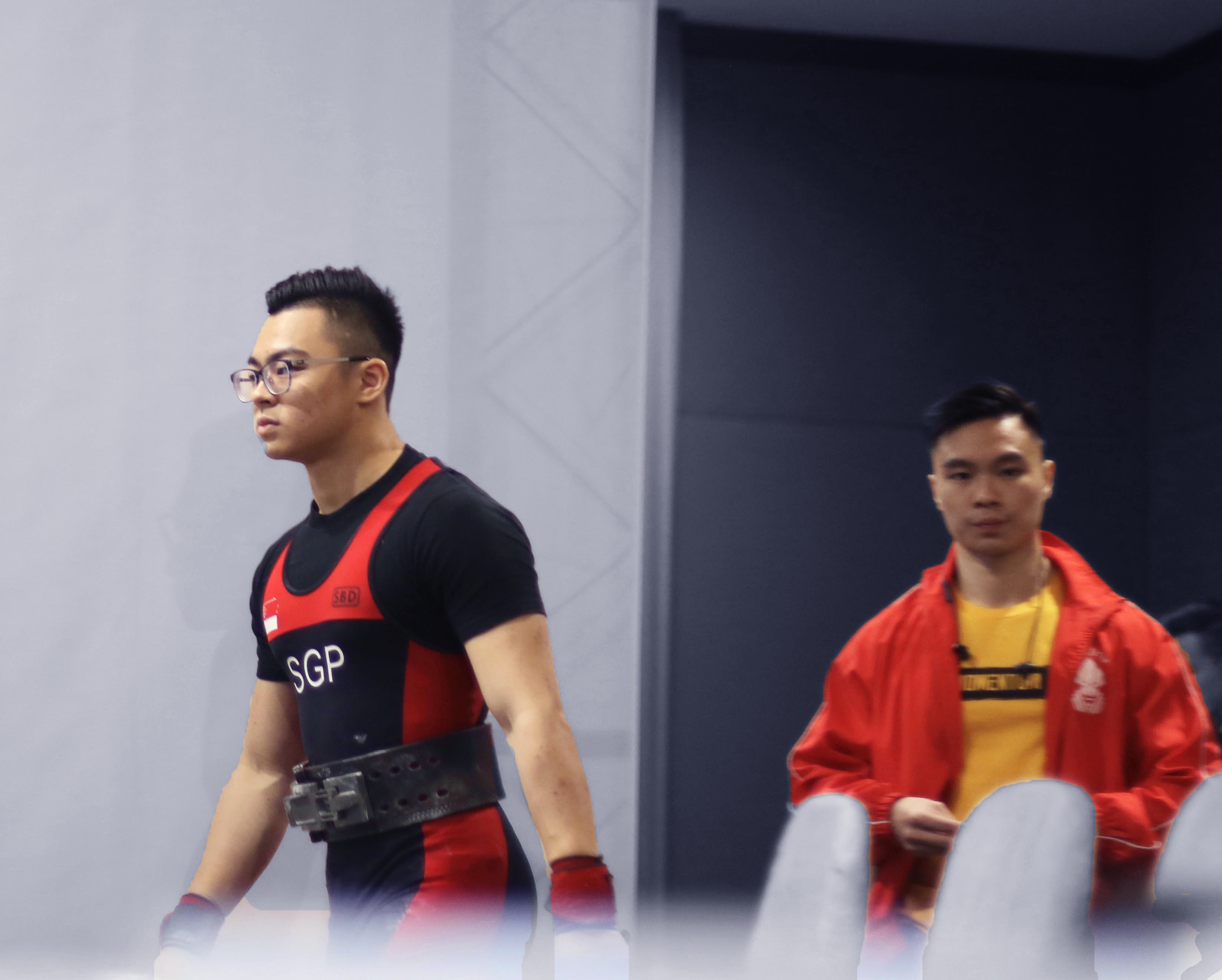 Yap at the Singapore Powerlifting Invirational 2018, making his debut in the Under 74kg weight class.